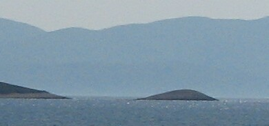 Mali Vodnjak, one of Paklinski islands in the Adriatic sea